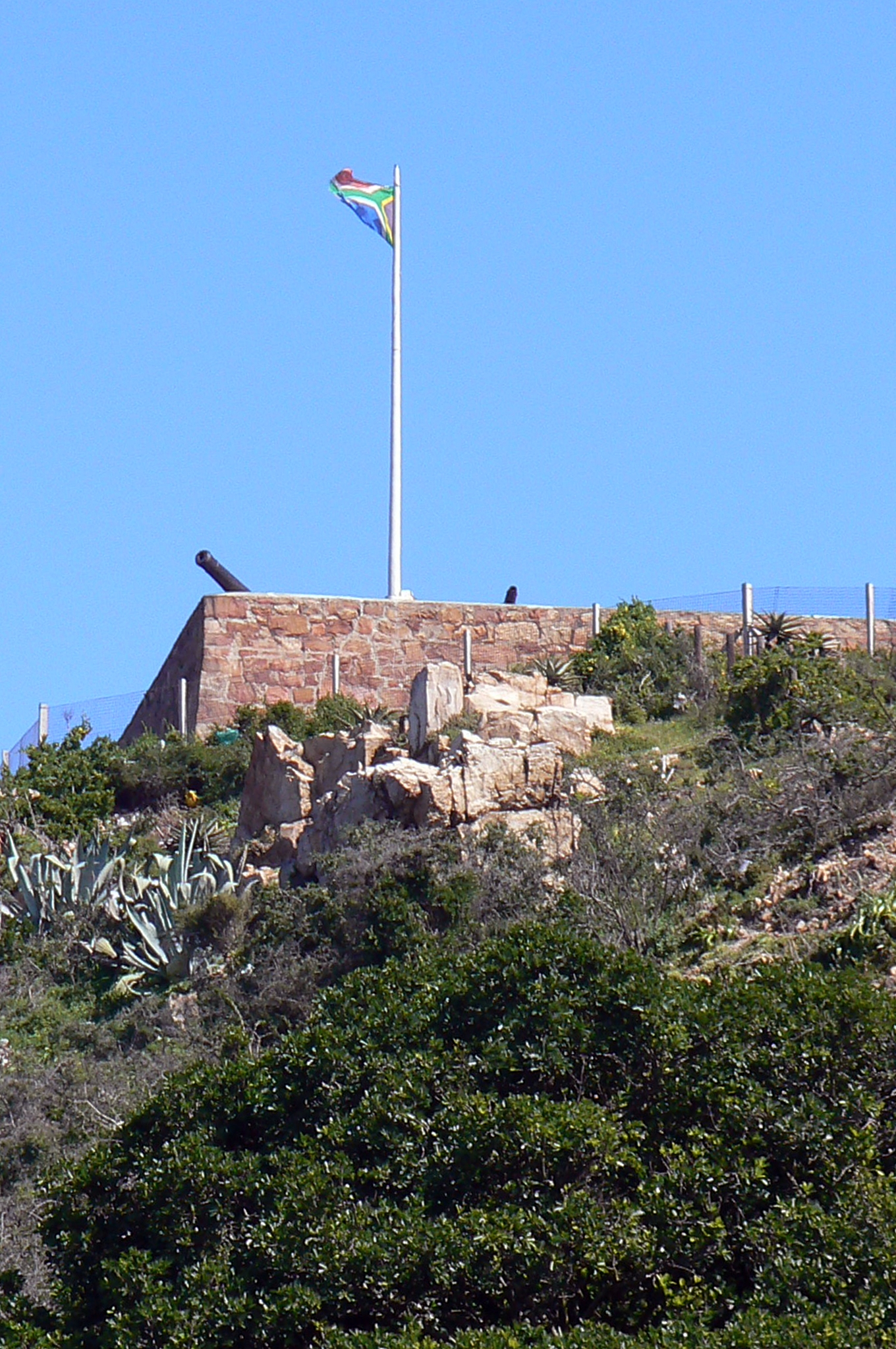 Fort Frederick (Belmont Terrace, Port Elizabeth, South Africa) with its cannon visible. This media shows a South African Protected Site with SAHRA file reference 9/2/073/0006.